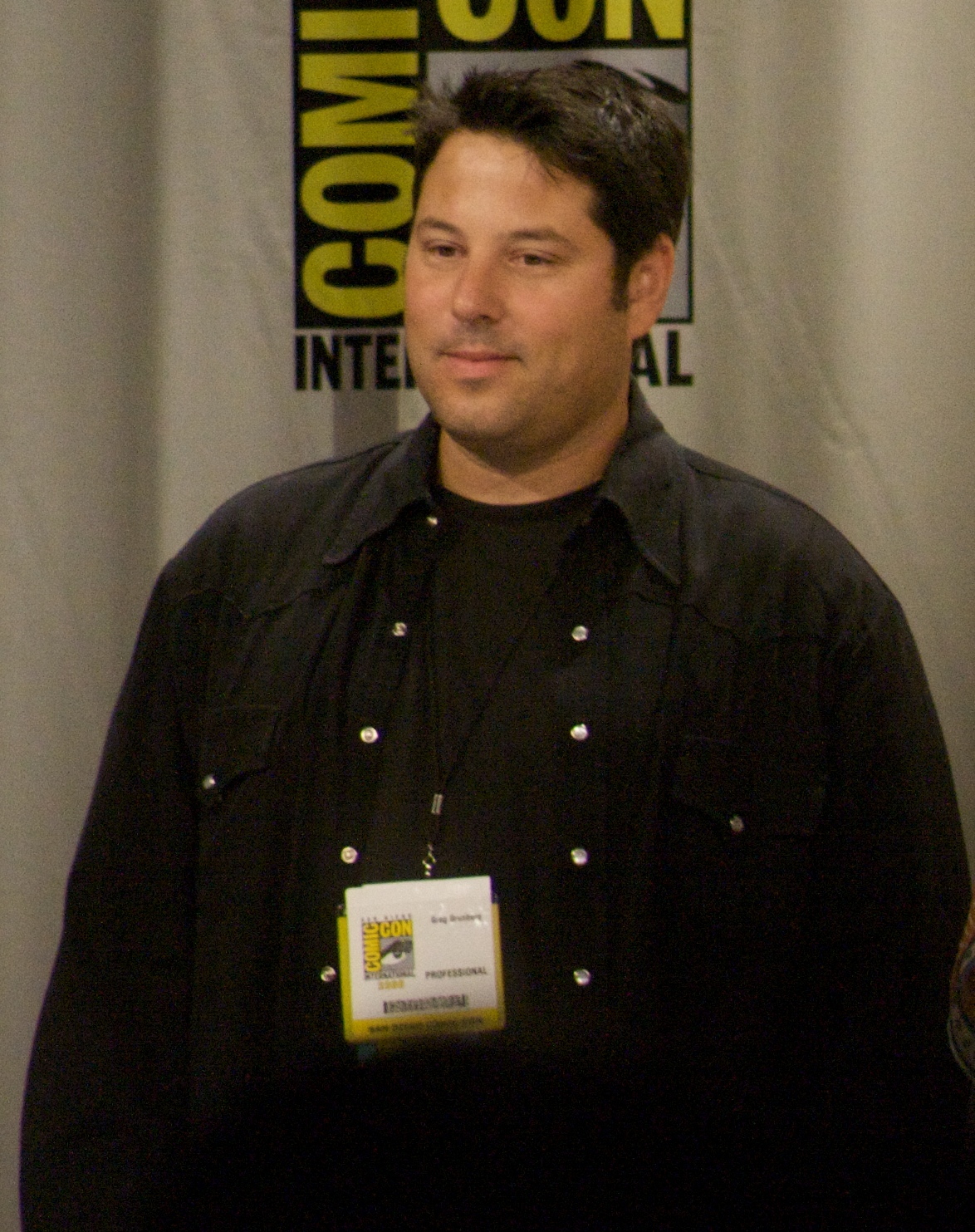 Greg Grunberg at the Heroes panel, Comic-Con 2008